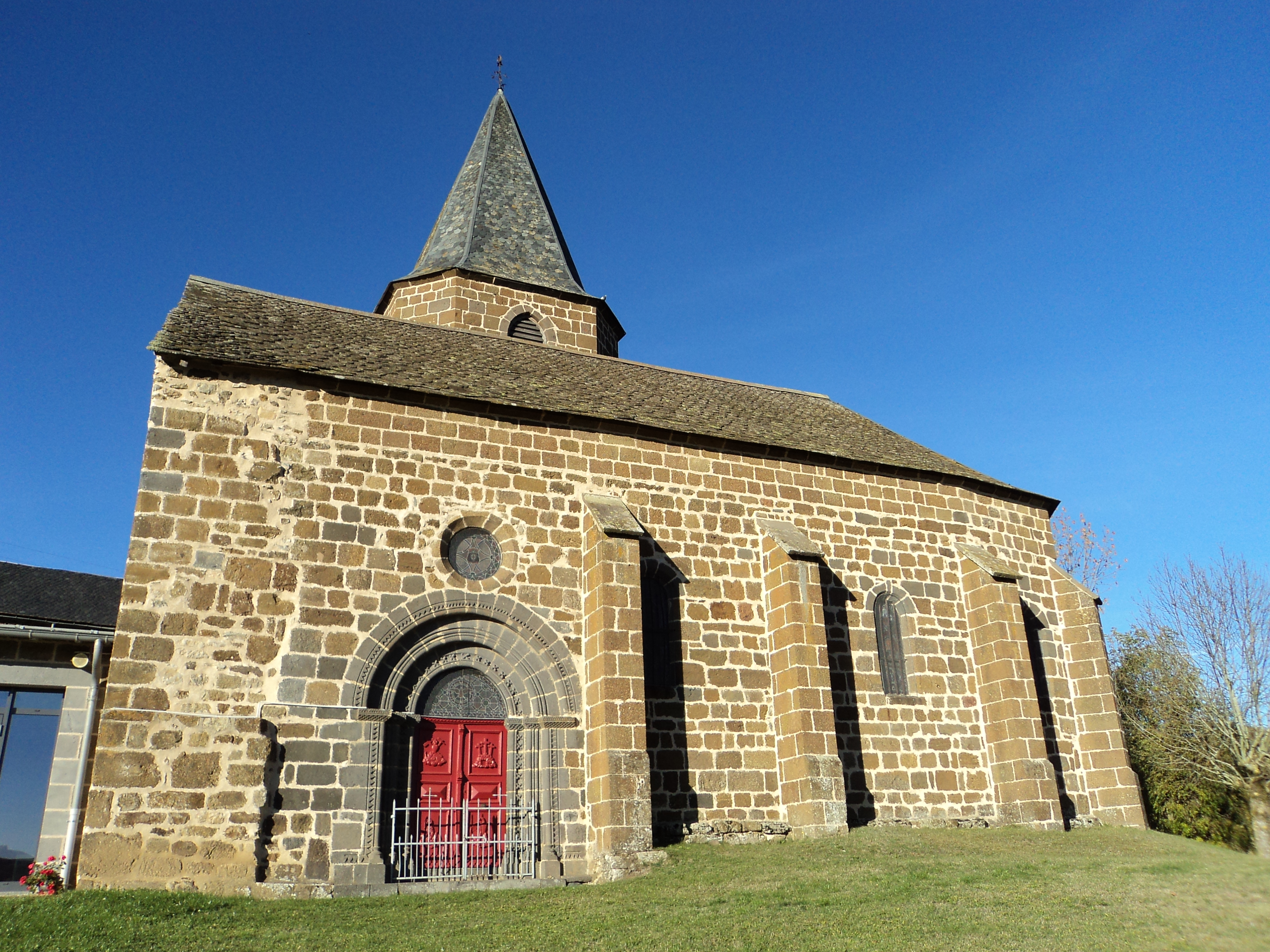 Object location45° 04′ 12.36″ N, 3° 08′ 16.44″ E .